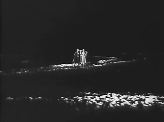 A still from Friedrich Ermler's Oblomok imperii 1929 soviet film.